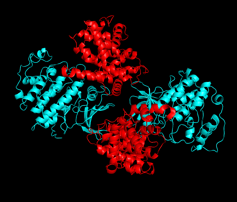 Cdk2 Cyclin A Complex